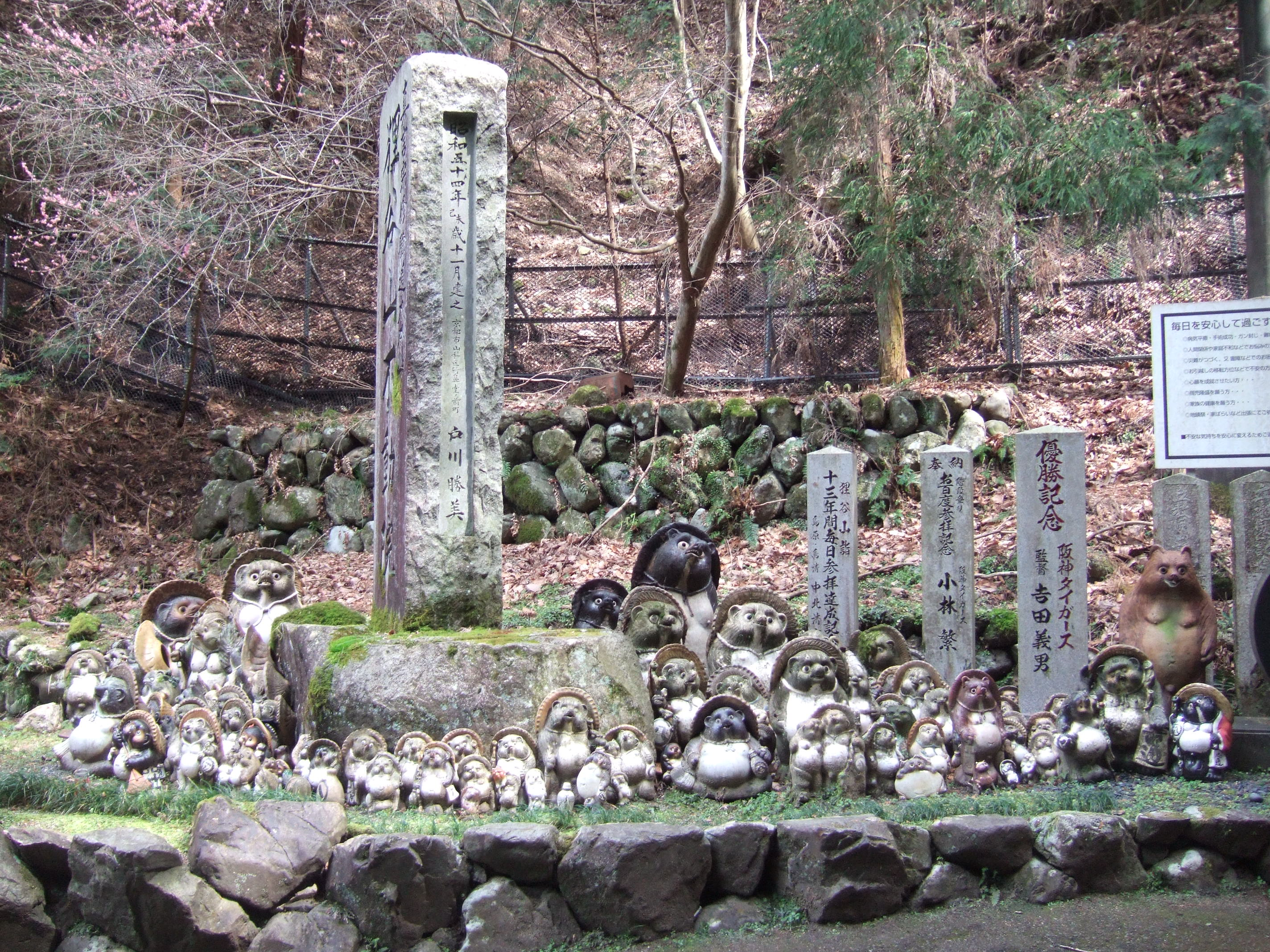 A bunch of Tanuki statues at Tanukidani-Fudoin (狸谷不動院).